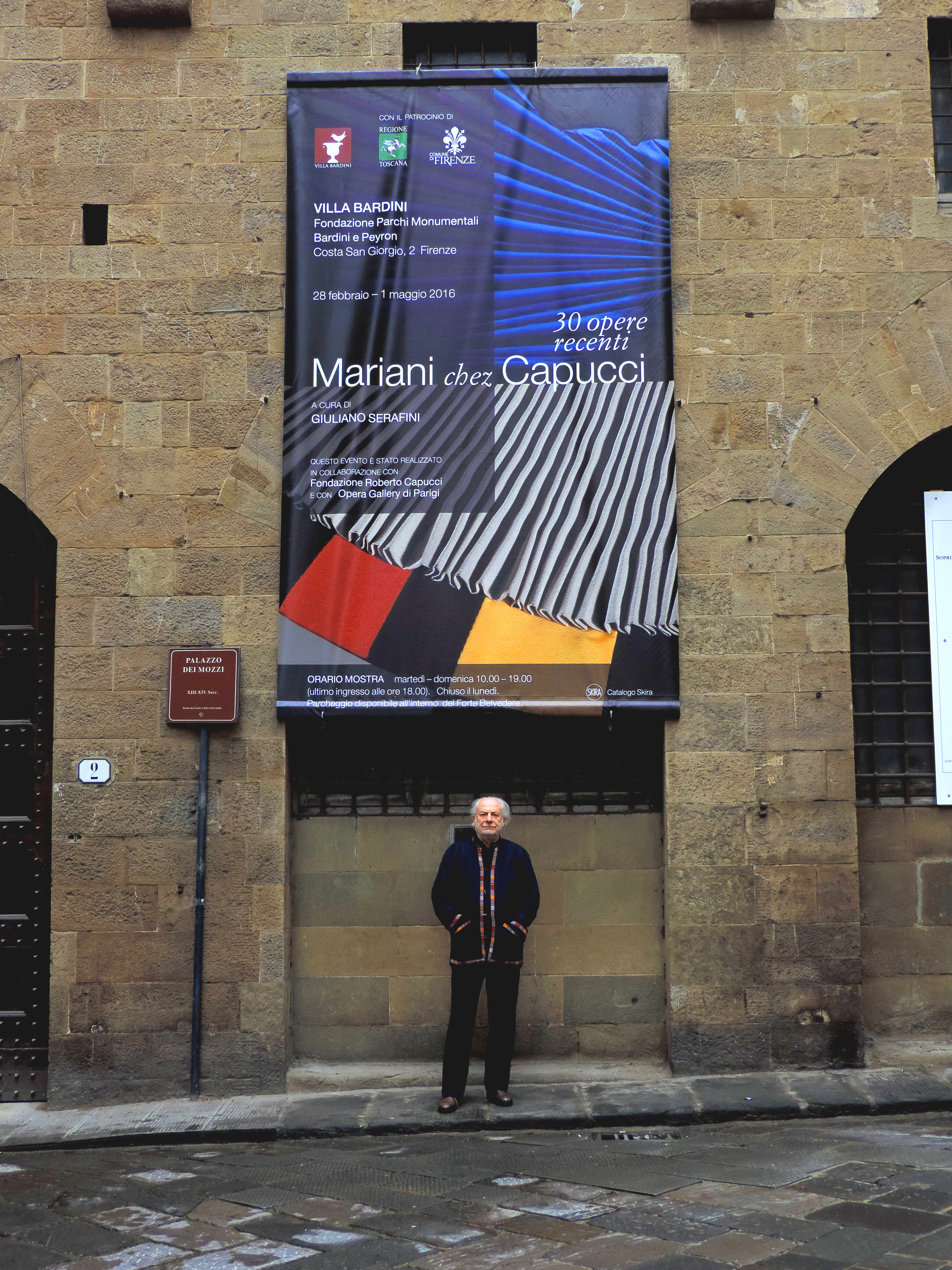 2016, Florence, Umberto Mariani, Fondazione Roberto Capucci